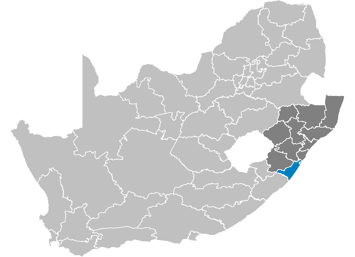 Map showing the Ugu District Municipality higlighted within KwaZulu-Natal.